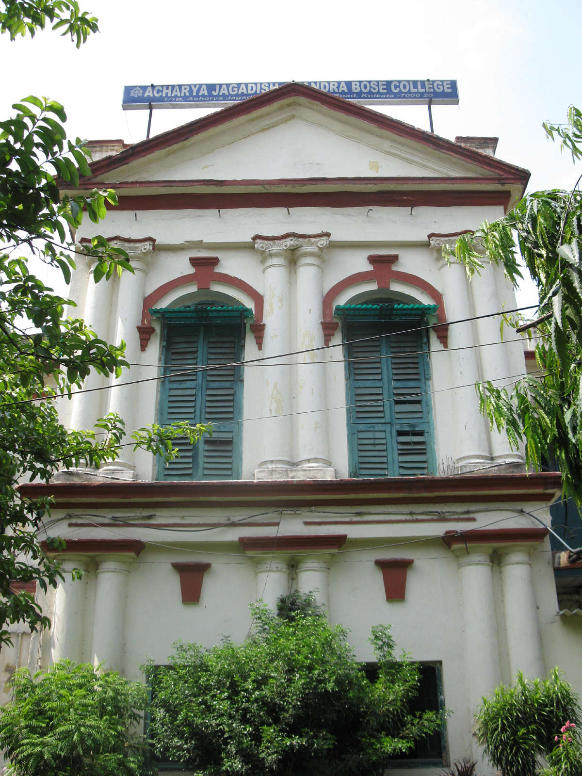 The Main Building of Acharya Jagadish Chandra Bose College